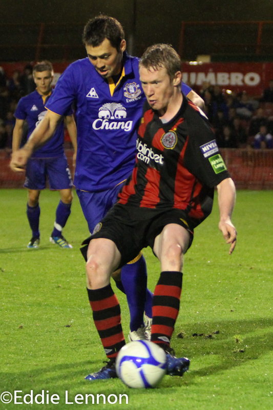 Diniyar Bilyaletdinov of Everton vs Bohemians FC.